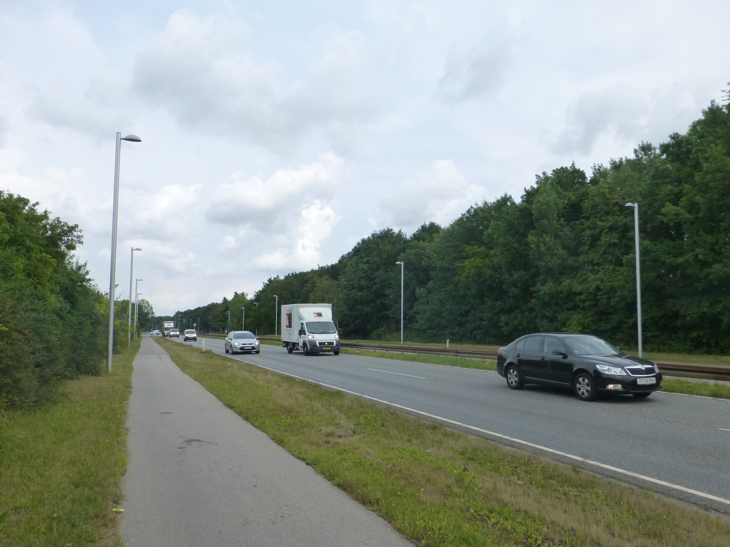 Nordre Ringvej, a part of Ring 3 around Copenhagen, between Ejbydalsvej and Ejby Industrivej.